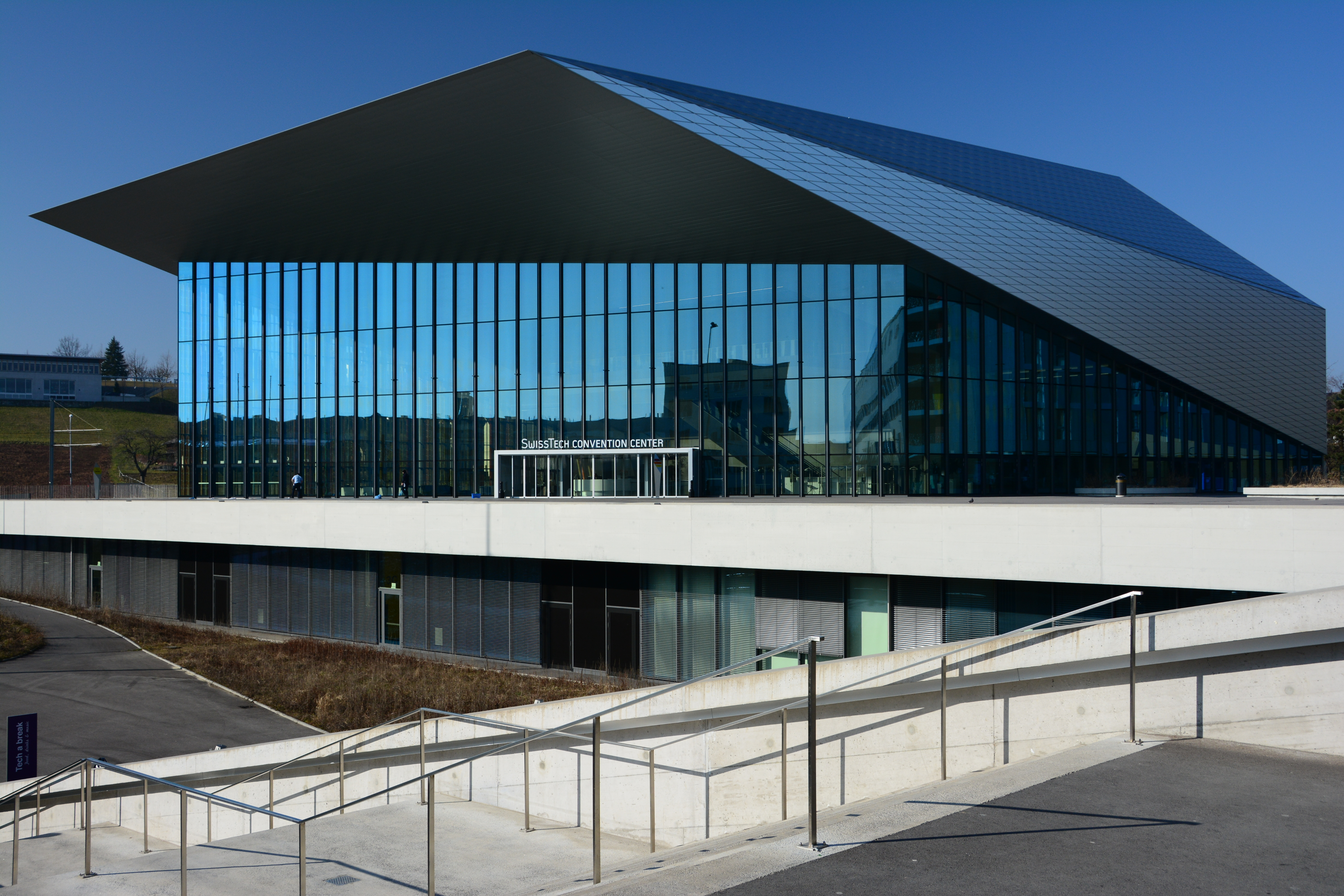 SwissTech Convention Center next to the EPFL campus.